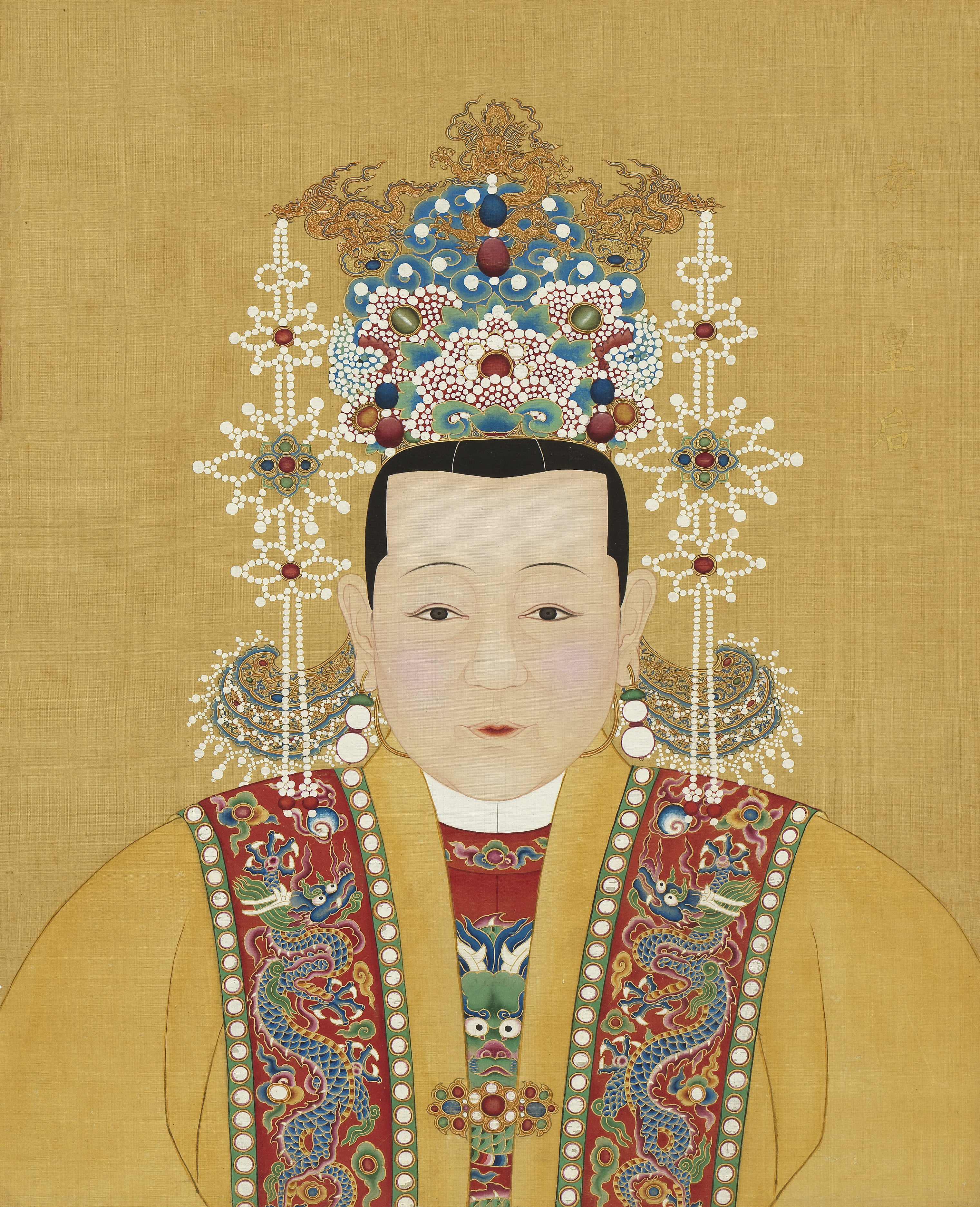 Portrait of Empress Xiaosu of Ming Dynasty China